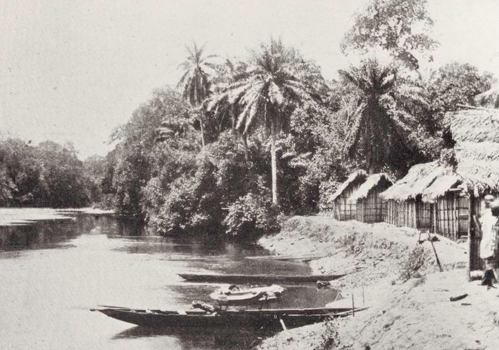 On the River Ankoubra, Gold Coast Hinterland.